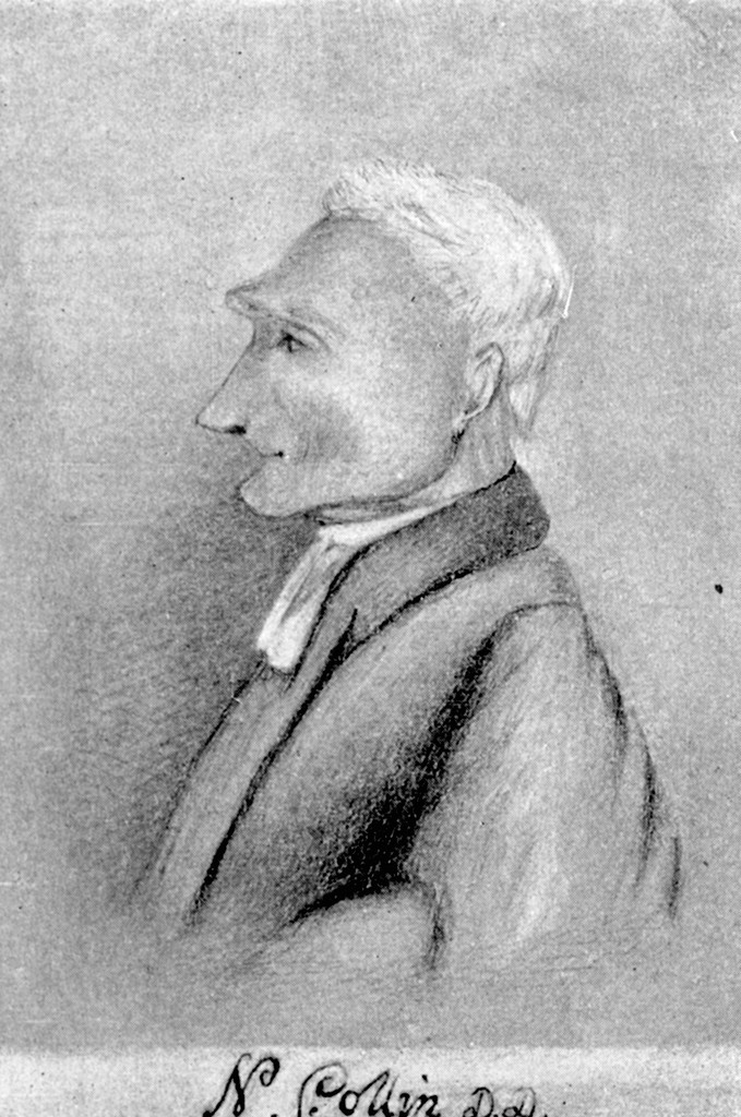 Nicholas Collin, Print of drawing, 1810